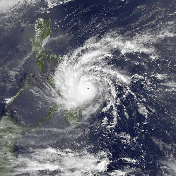 Typhoon Nelson at it's maximum intensity on March 25, 1982.